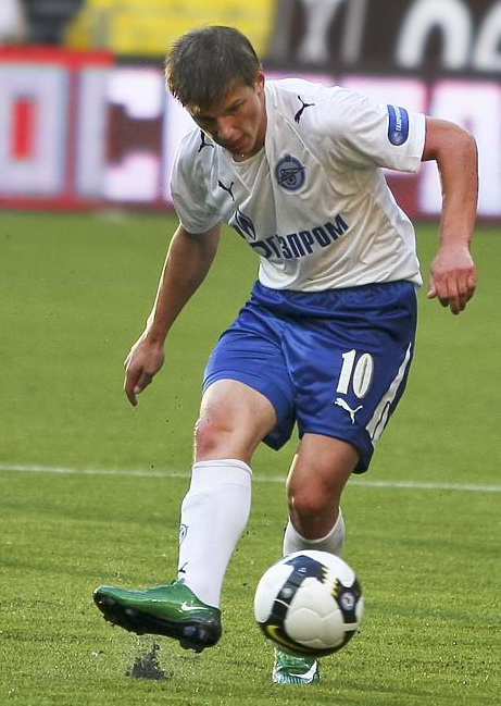 AndreyArshavin